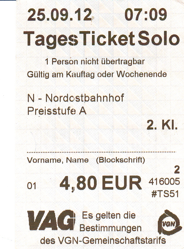 VGN (VAG) public transport ticket Subway ticket Nuremberg